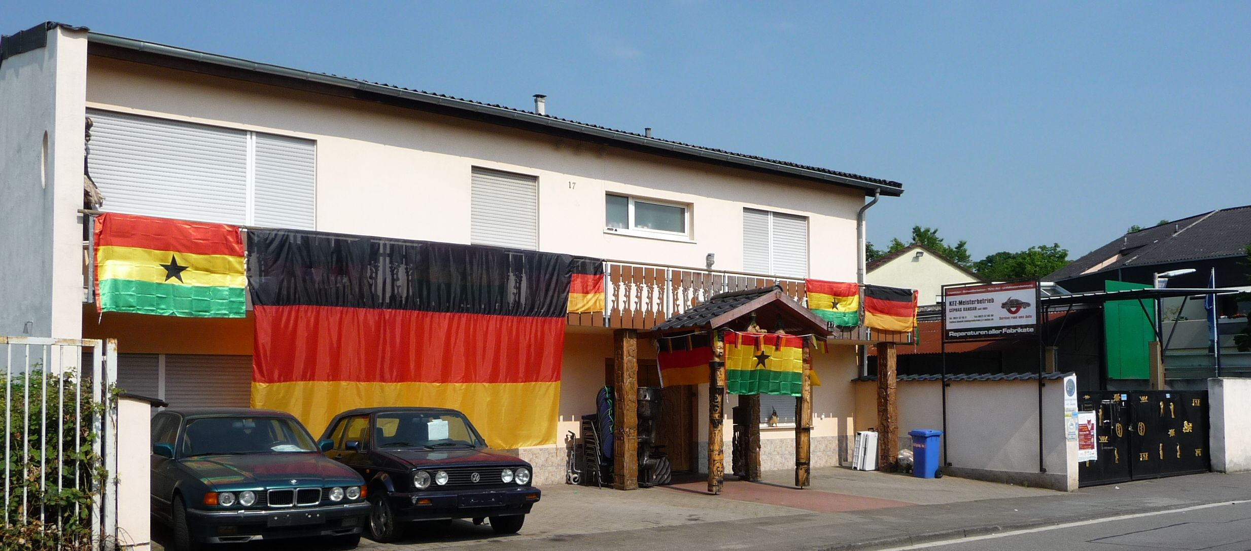 Céphas Bansah